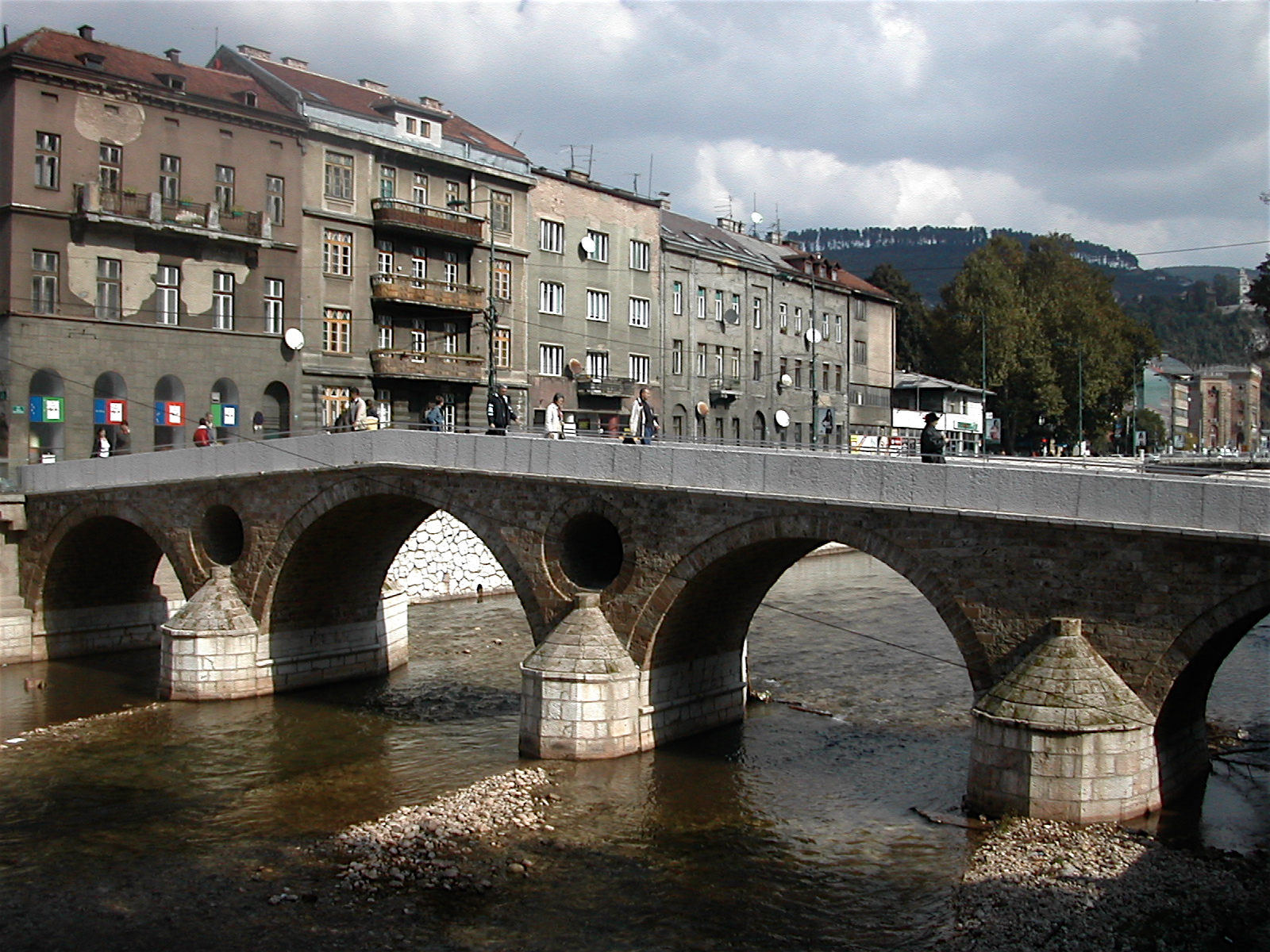 Latin bridge (prev. Princip bridge) in Sarajevo. Site of the assassination of Archduke Franz Ferdinand which started WW I.